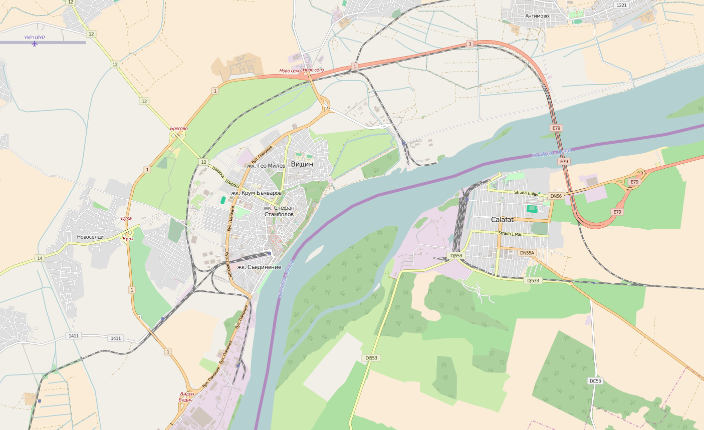 OpenStreetMap - Map of Vidin-Calafat